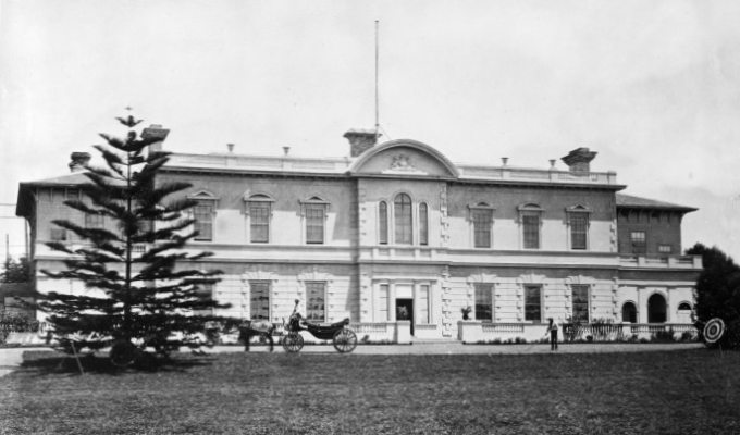 Government House in Auckland City, New Zealand in the 1880s. Extended information on origin webpage reads (in part): Creator unknown :Photograph of Government House, Auckland [188-] / Reference number: PAColl-8794 / 1 b&w original photographic print(s). Albumen print 21.5 x 36.1 cm. Horizontal image. Photographic Archive / Scope and contents: Photograph of Government House, Auckland, taken ca late 1880s by an unidentified photographer. / Provenance: No donor or provenance information available. Possibly part of a larger collection. / Coverage dates: 1885-1891 / Form and genre: Albumen photoprints.